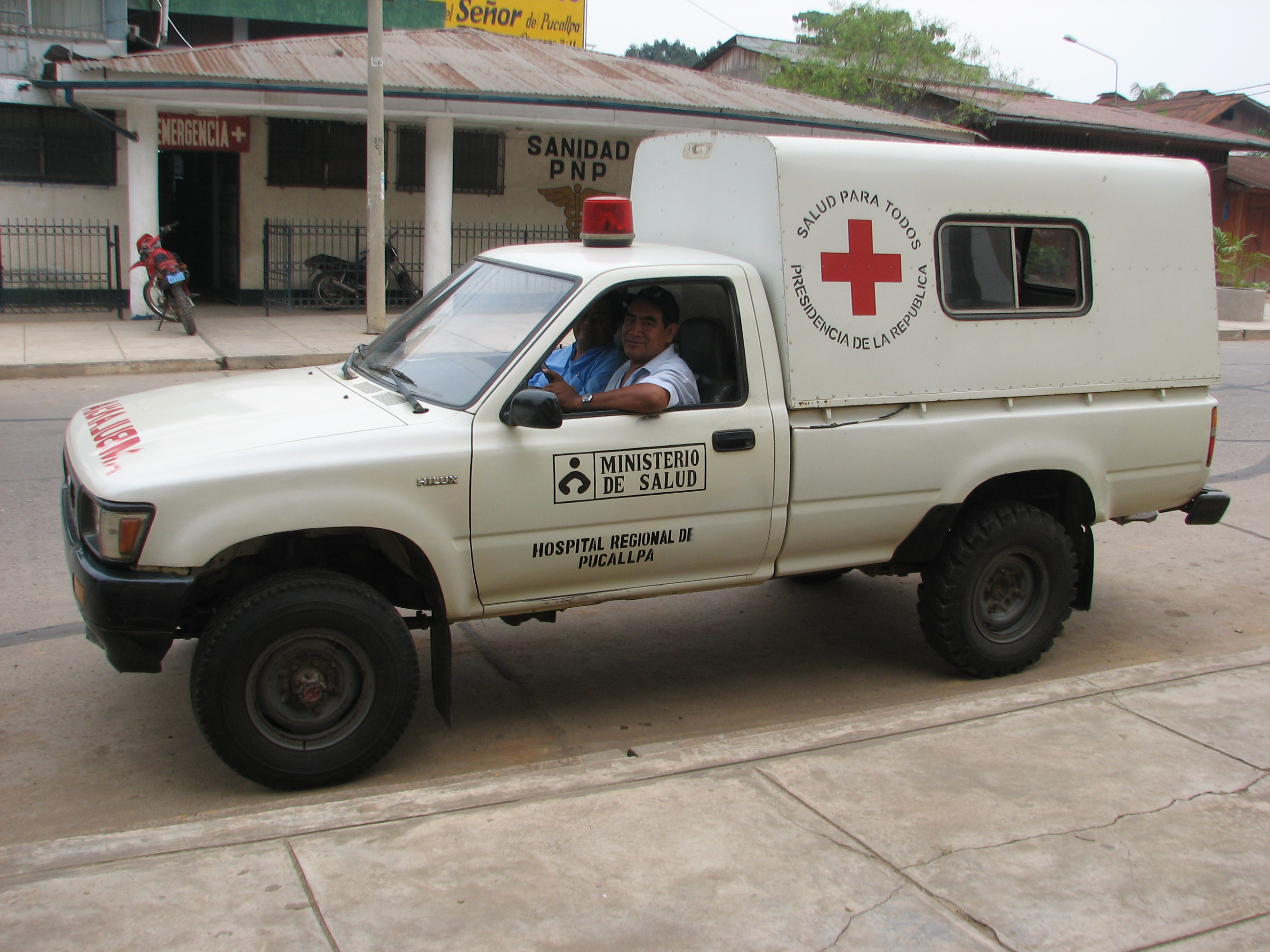 Ambulance, Ministry of Health, Regional Hospital in Pucallpa/Coronel Portillo/Ucayali, Peru